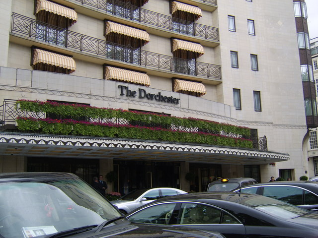 Dorchester Hotel, Mayfair. A no doubt very plush hotel just off the city's Park Lane.